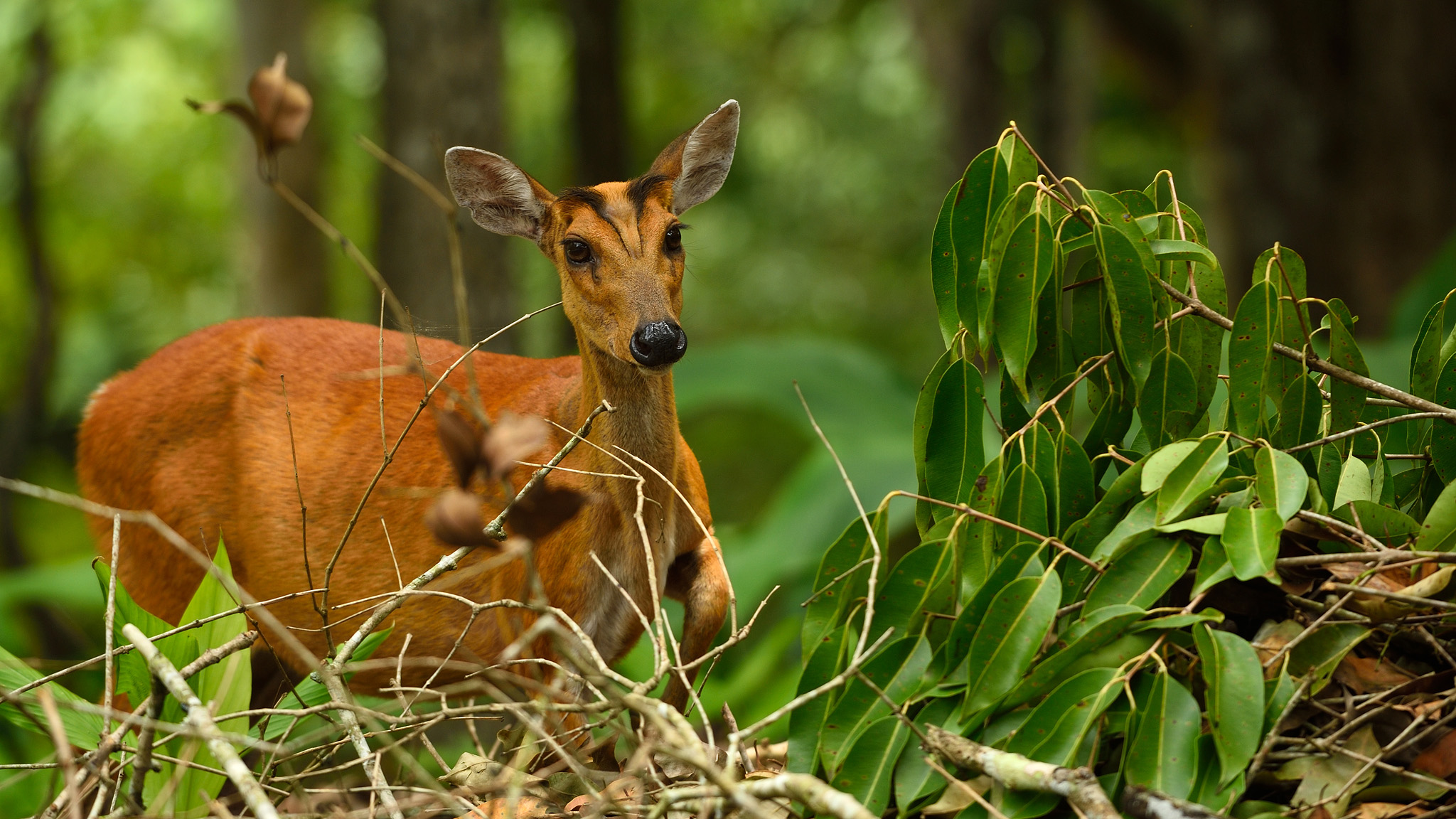 Northern Red Muntjac female, Muntiacus vaginalis in Khao Yai national park, Thailand This photo is published under the Creative Commons Attribution-Share-Alike Licence. You are free to use this image, as long as it is shared with attribution under the same licence together with the appropriate credits: By: Tontan Travel Link